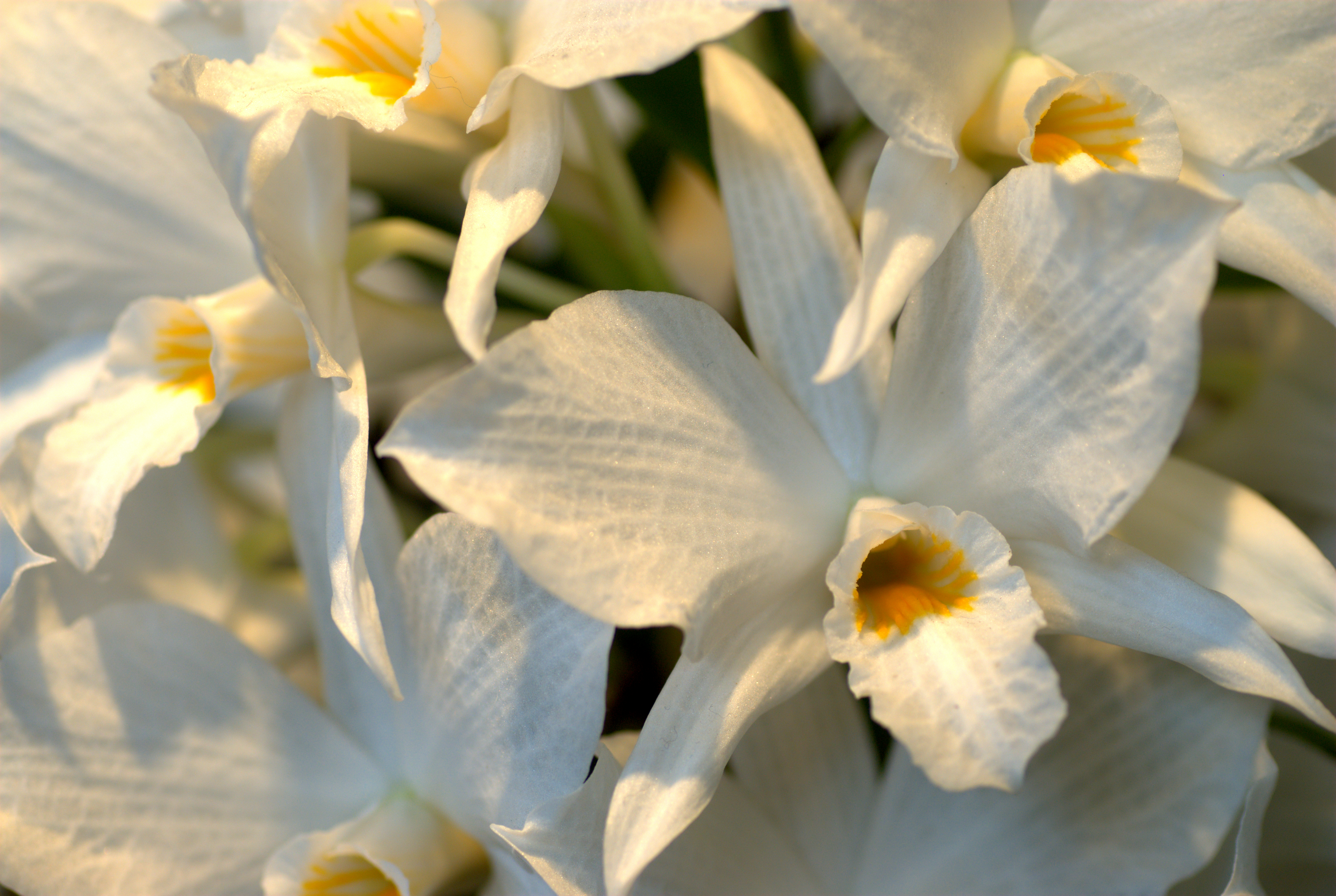 Dendrobium infundibulum at the Pacific Orchid Exposition 2010.